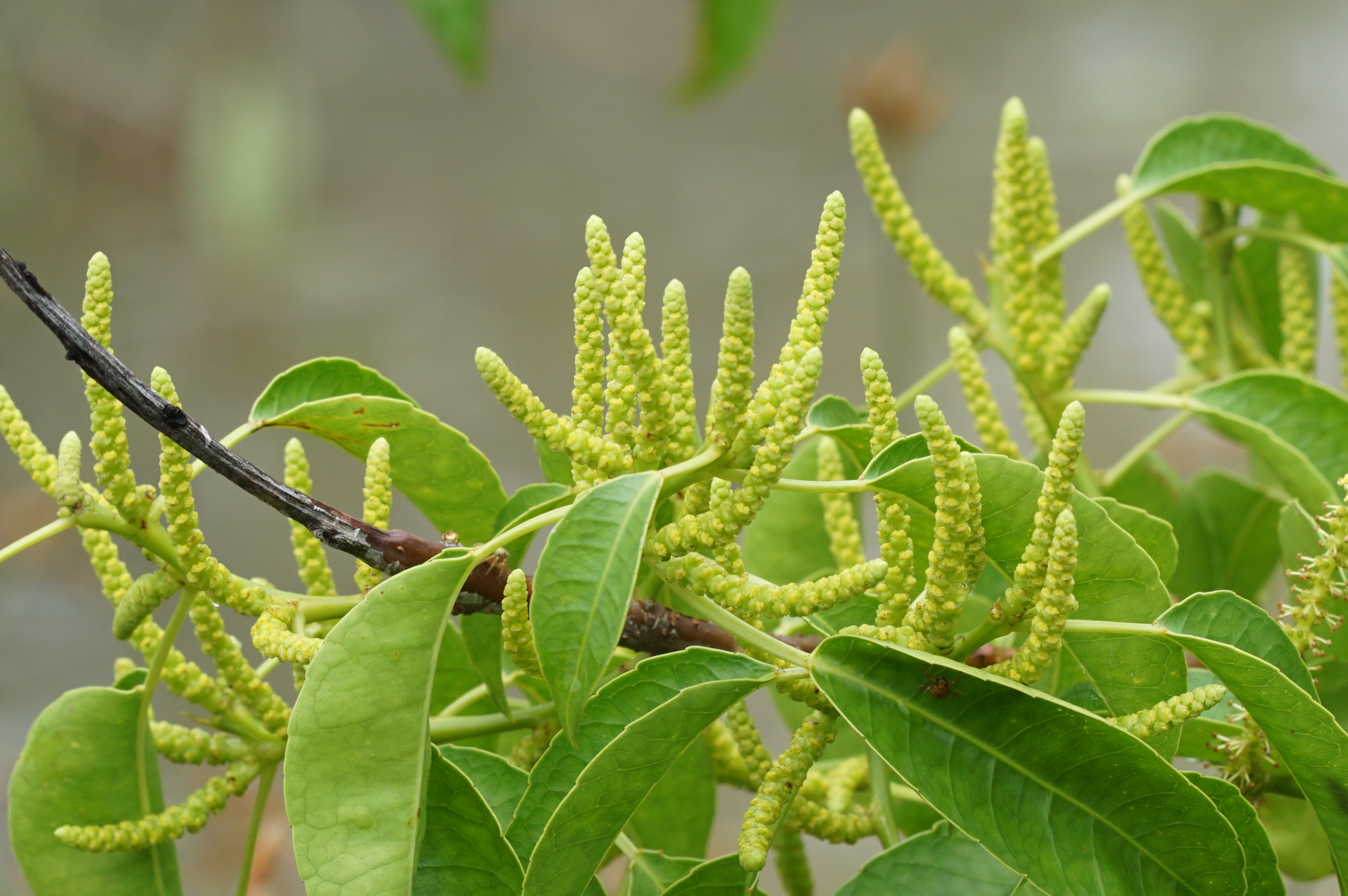 Excoecaria agallocha